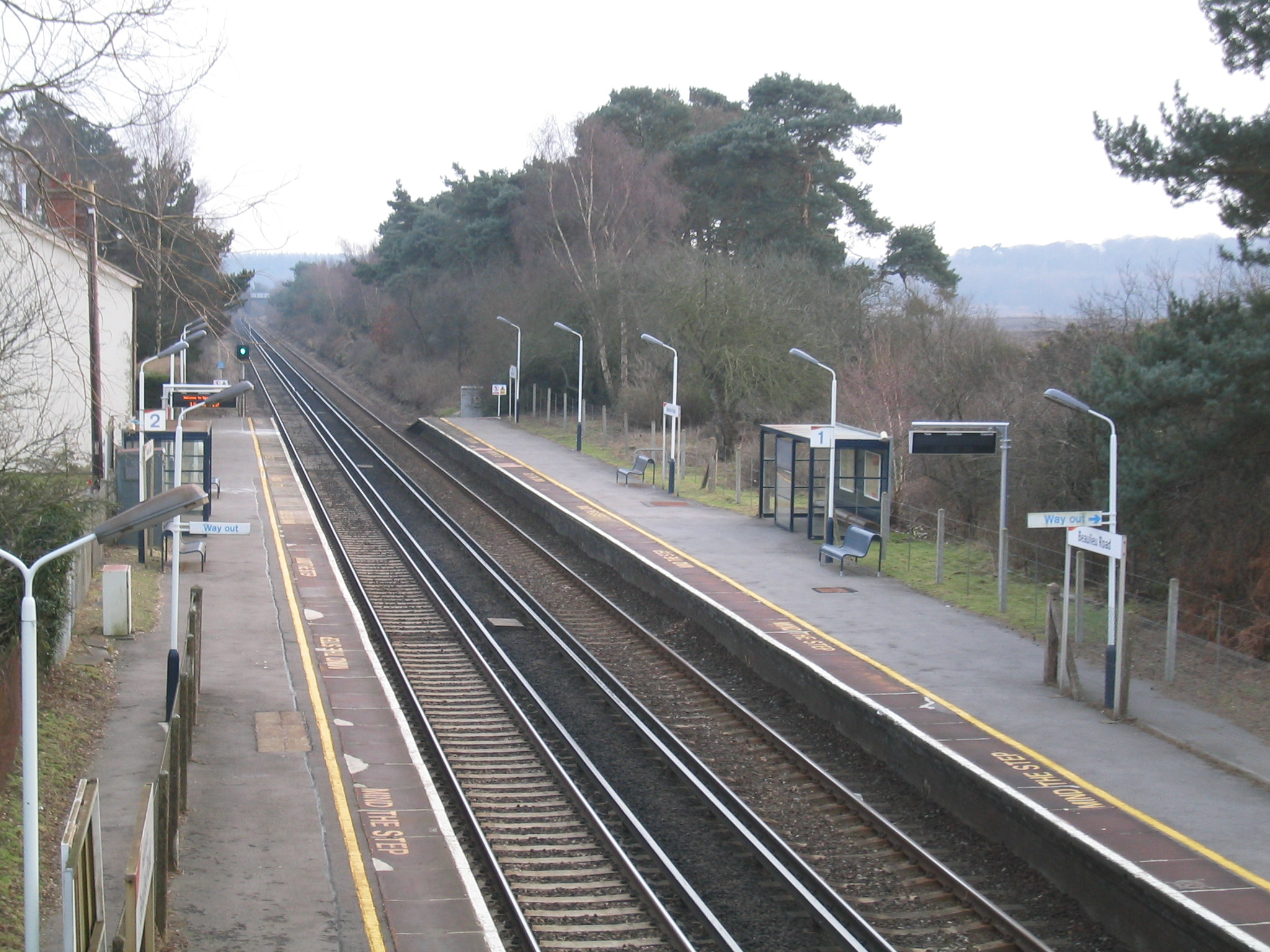 Beaulieu Road railway station, in the New Forest, Hampshire, UK.